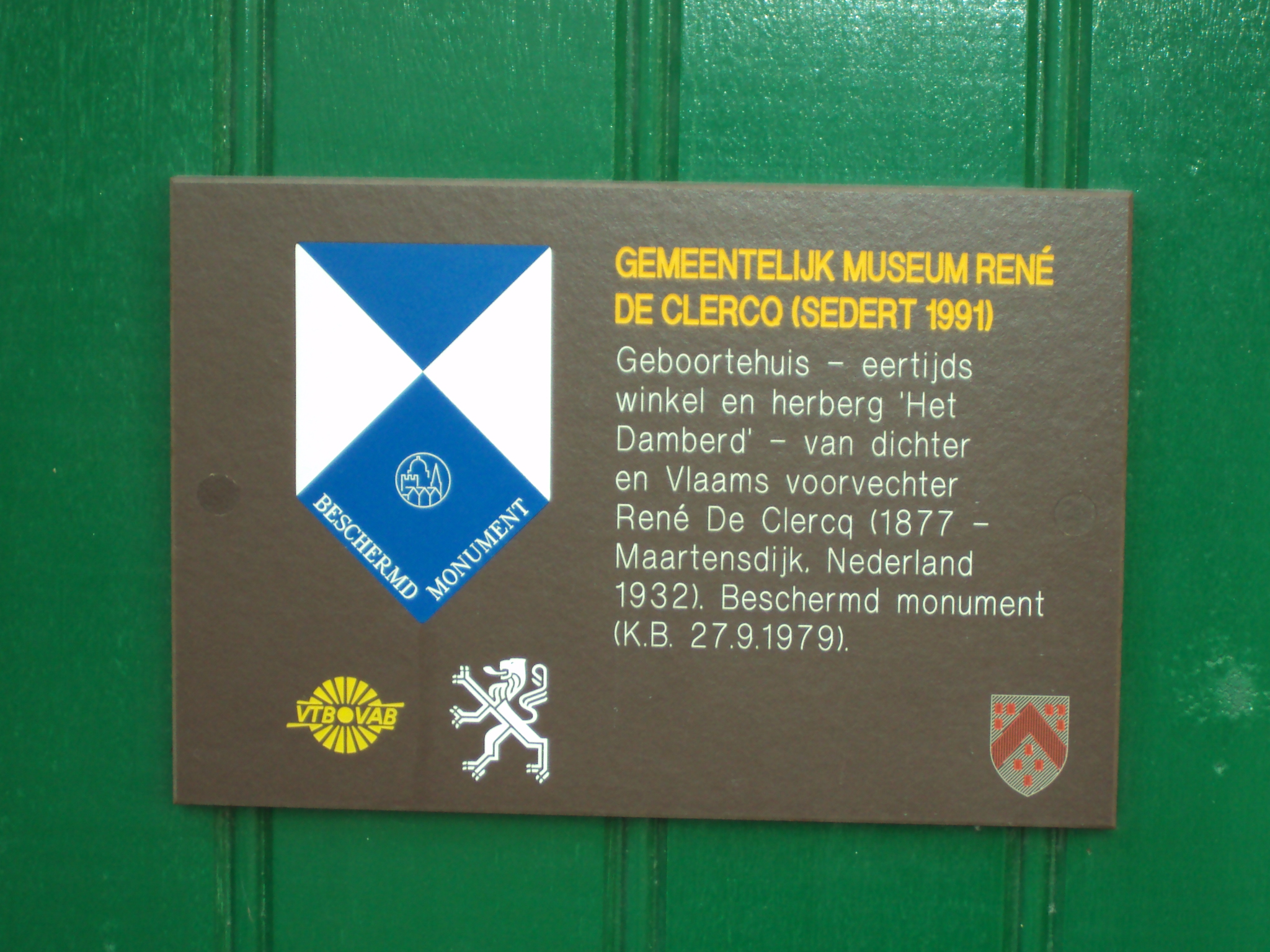 Sign on the house where René De Clercq was born